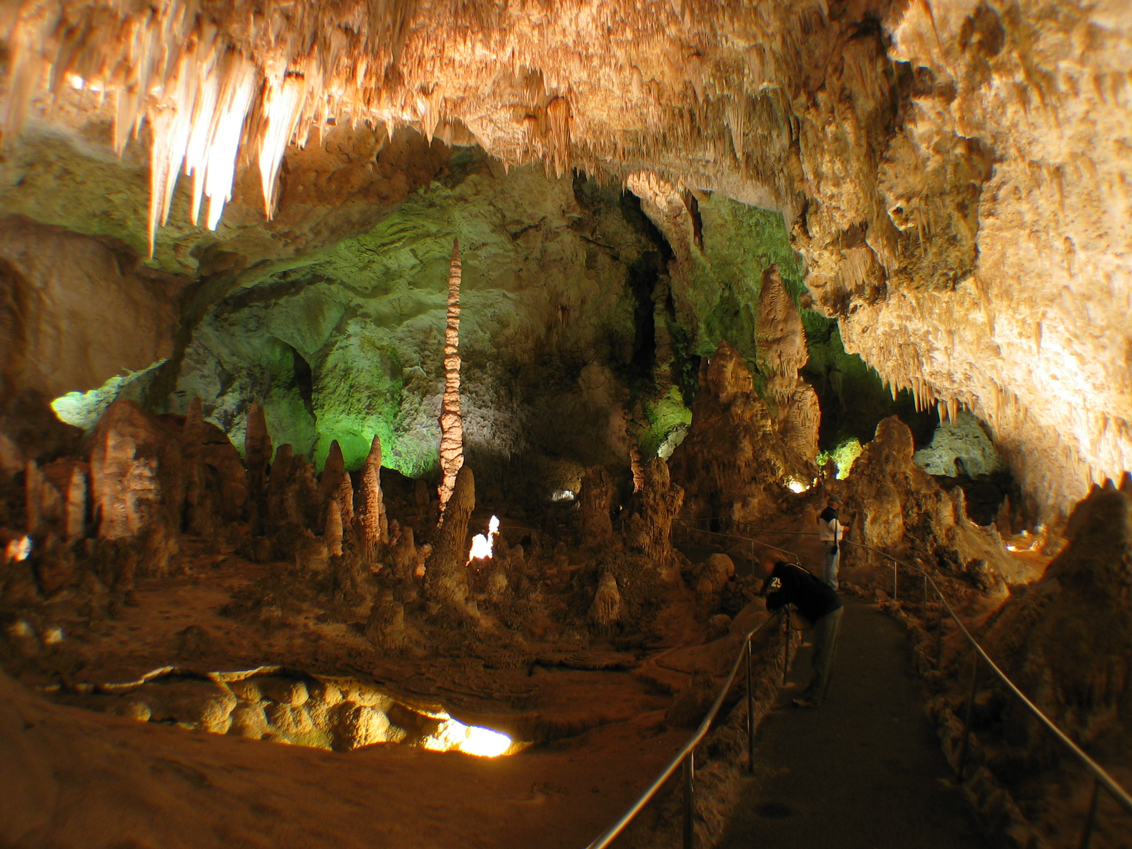 Carlsbad Caverns